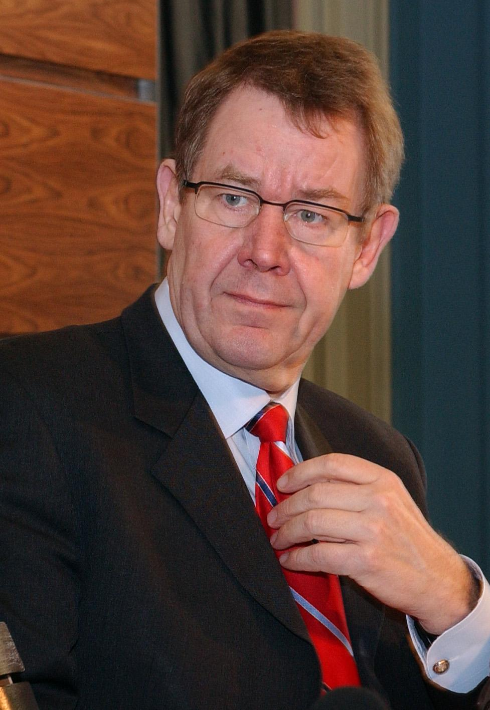 EPP and PES PRESIDENTS DEBATE 21.01.2005